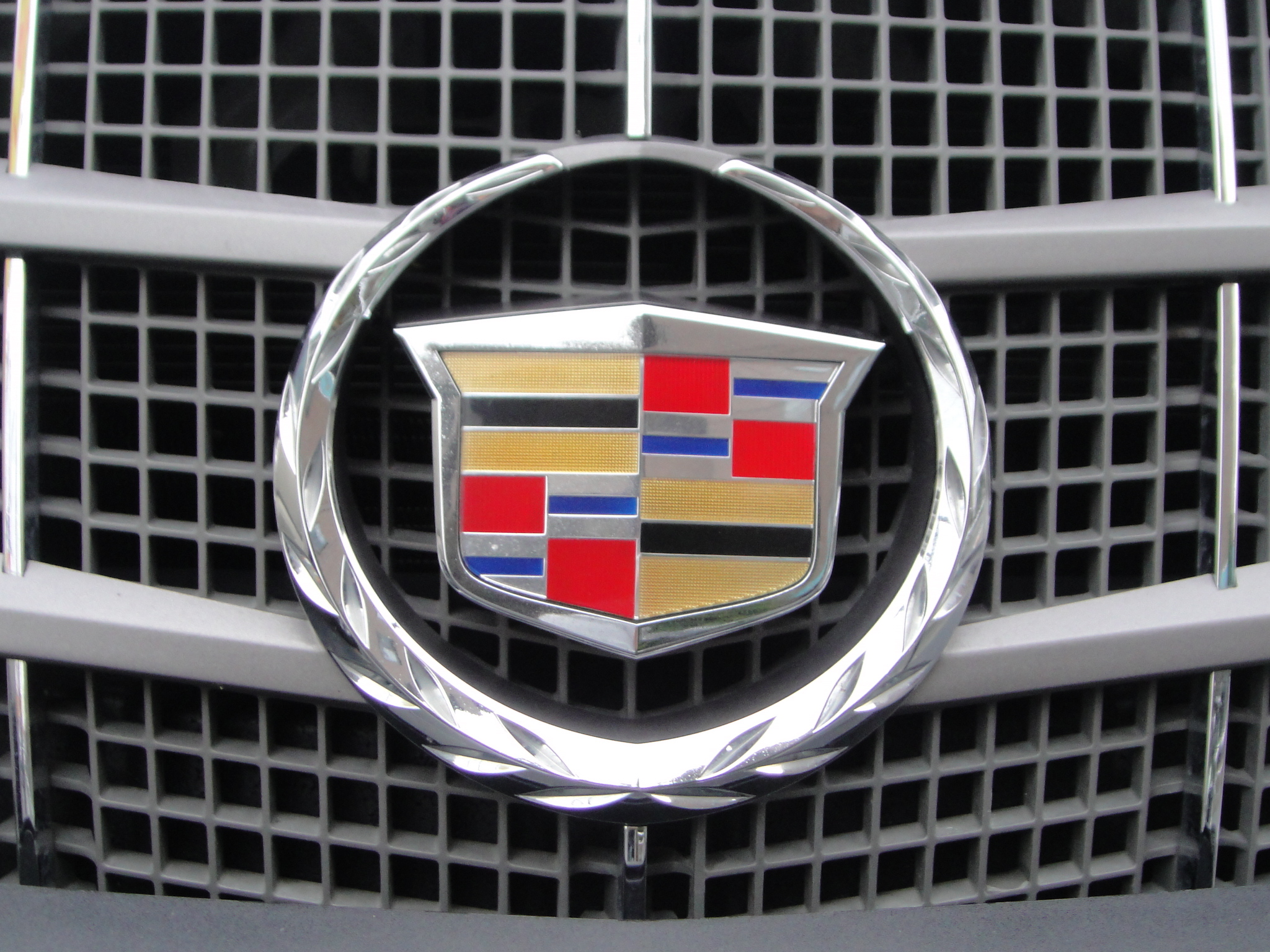 Cadillacc's emblem